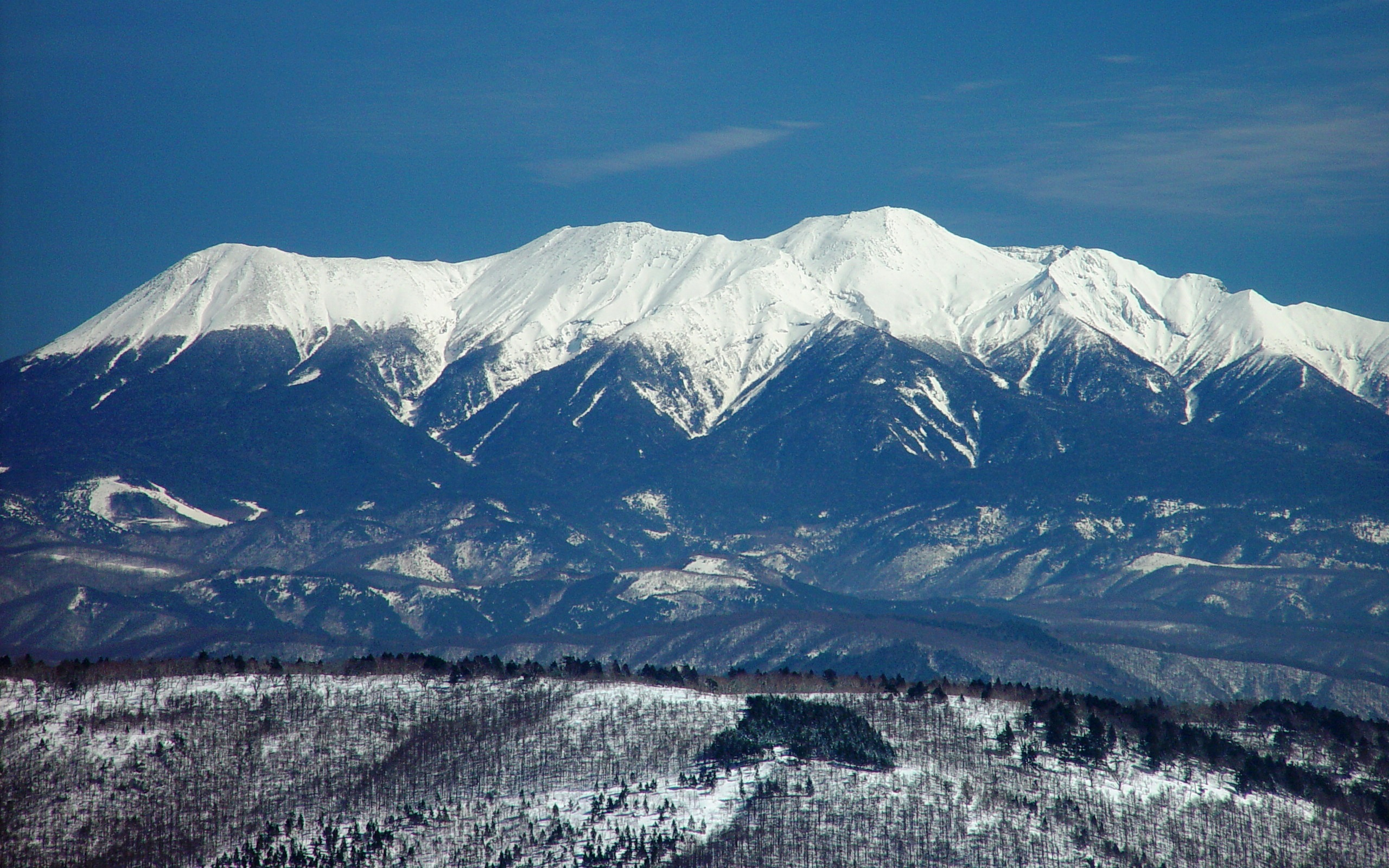 Mount Ontake from Mount Kurai, Gifu, Japan.